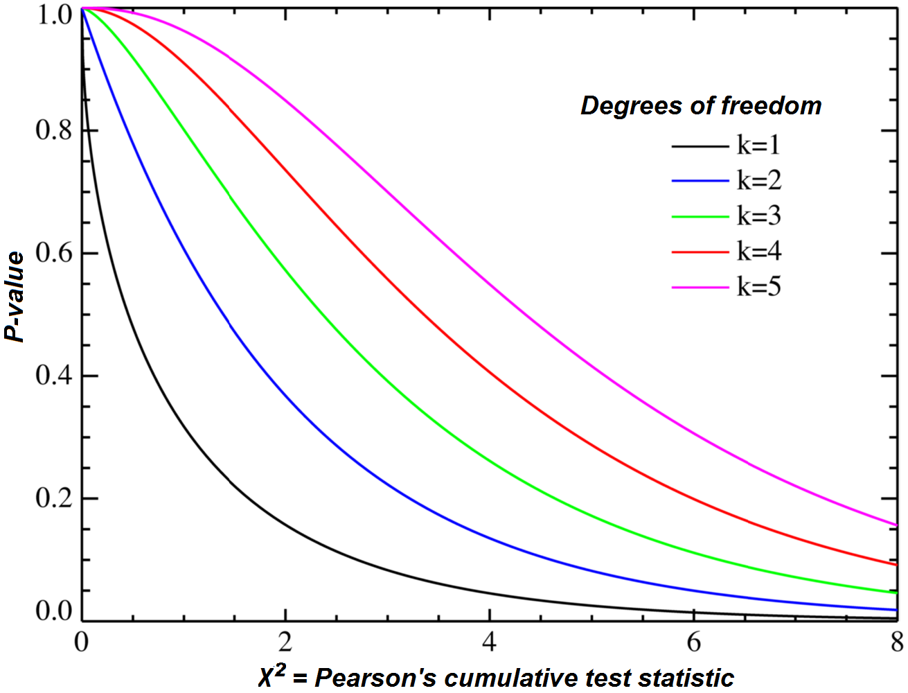 Inverse of the cumulative distribution function of the chi-square distribution, showing χ² on the x-axis and P-value on the y-axis.